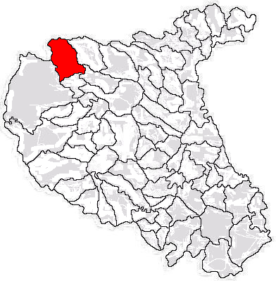 Limits of commune within Vrancea County